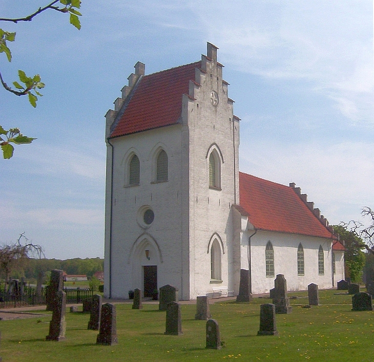 Sörby church in Sörby village, Hässleholm Municipality, Sweden